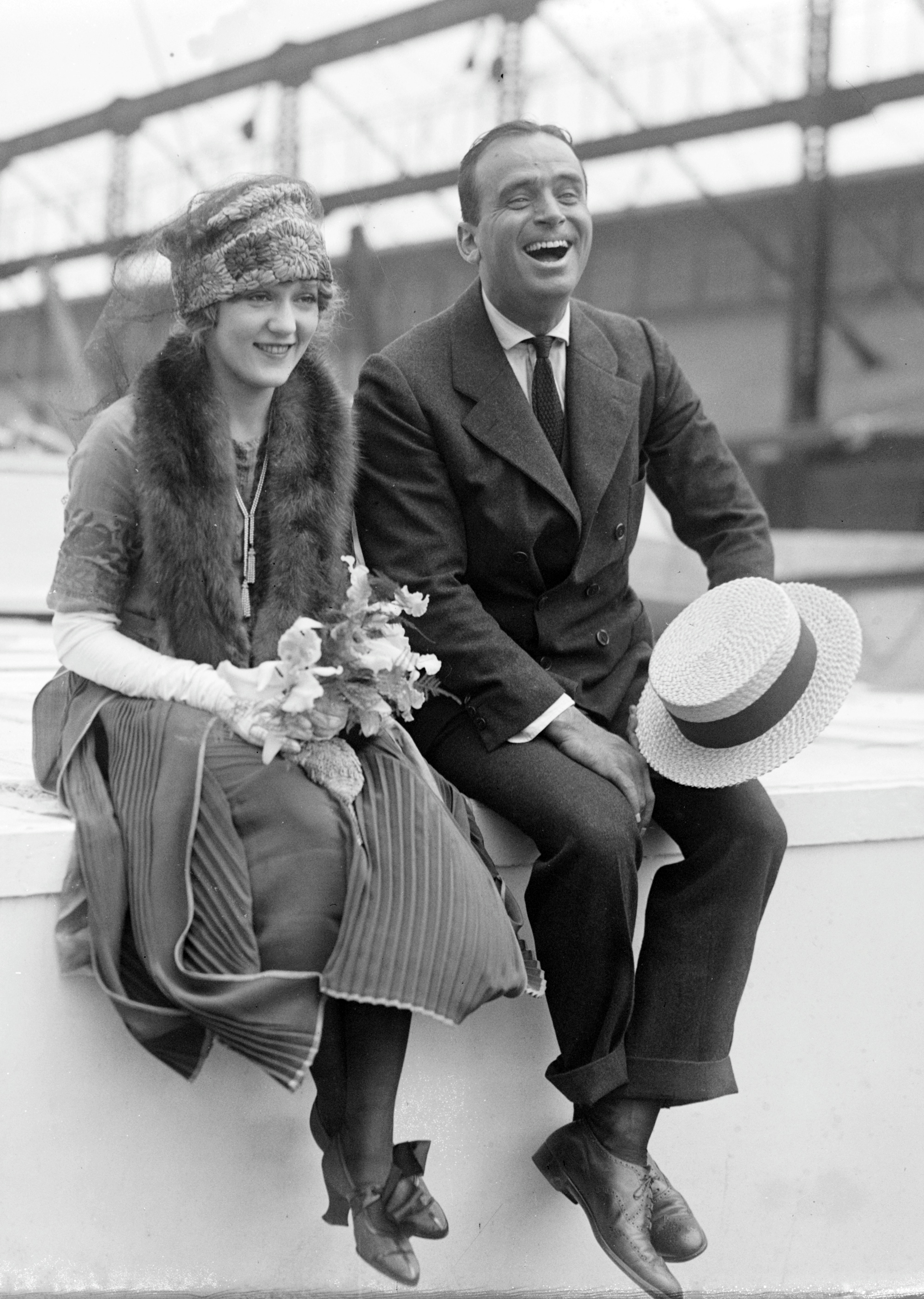 American actors Douglas Fairbanks (1883-1939) and Mary Pickford (1892-1979)